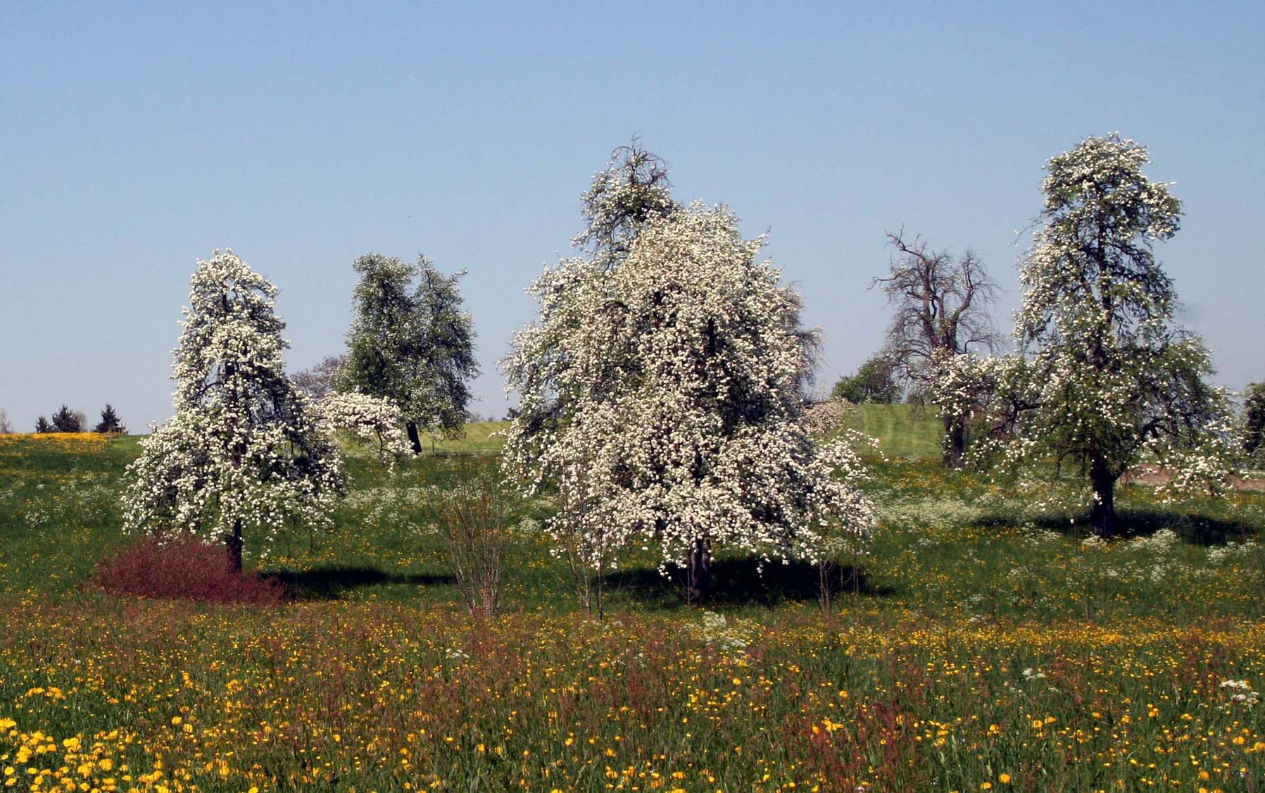 blooming pear trees